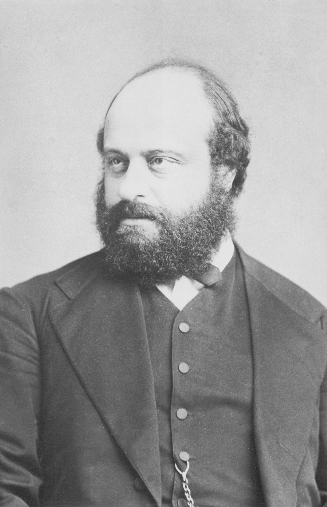 Eduard Rappoldi (1839—1903), the Austrian and German violinist, conductor and composer.